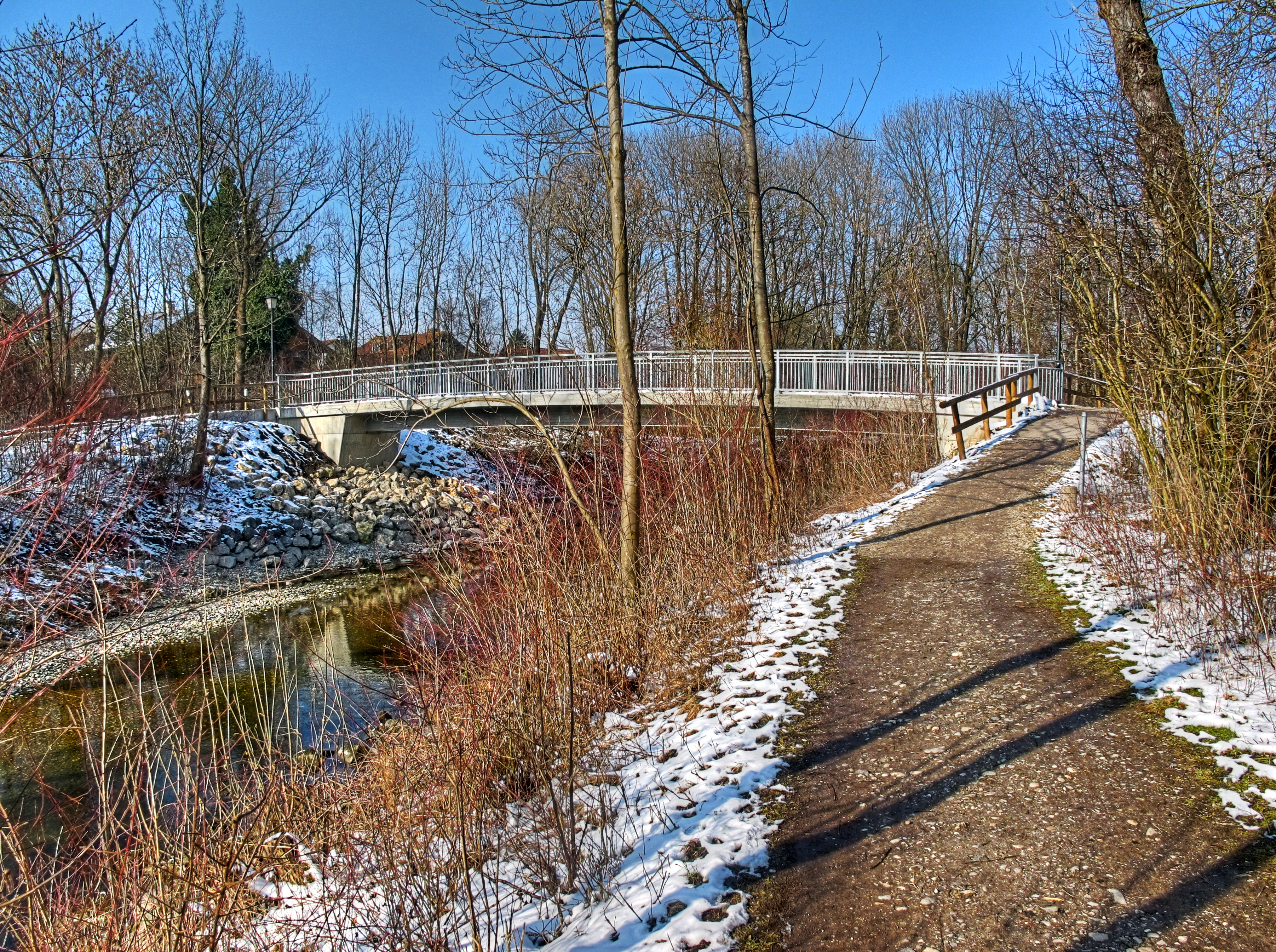 Germany, Bavaria, Olching, Bridge, HDR-Image